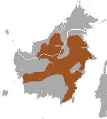 White-fronted Surili (Presbytis frontata) range